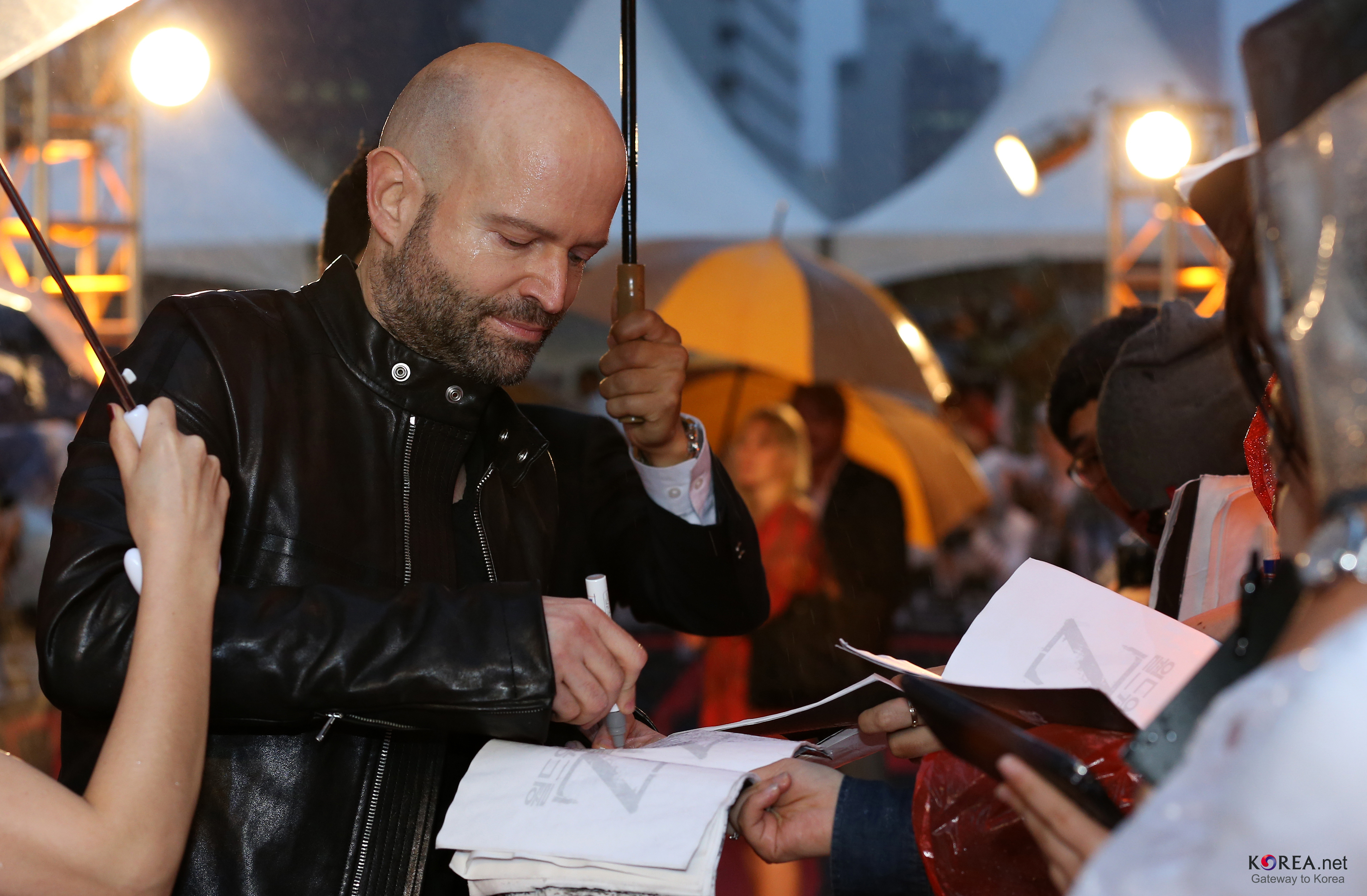 Brad Pitt and Director Marc Forster in Korea